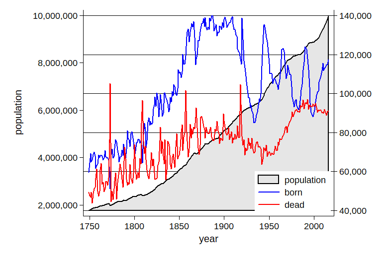 Swedens population, births och dead, 1735-2016